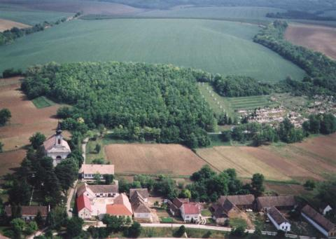 Kisdorog, Hungary, aerialphotography